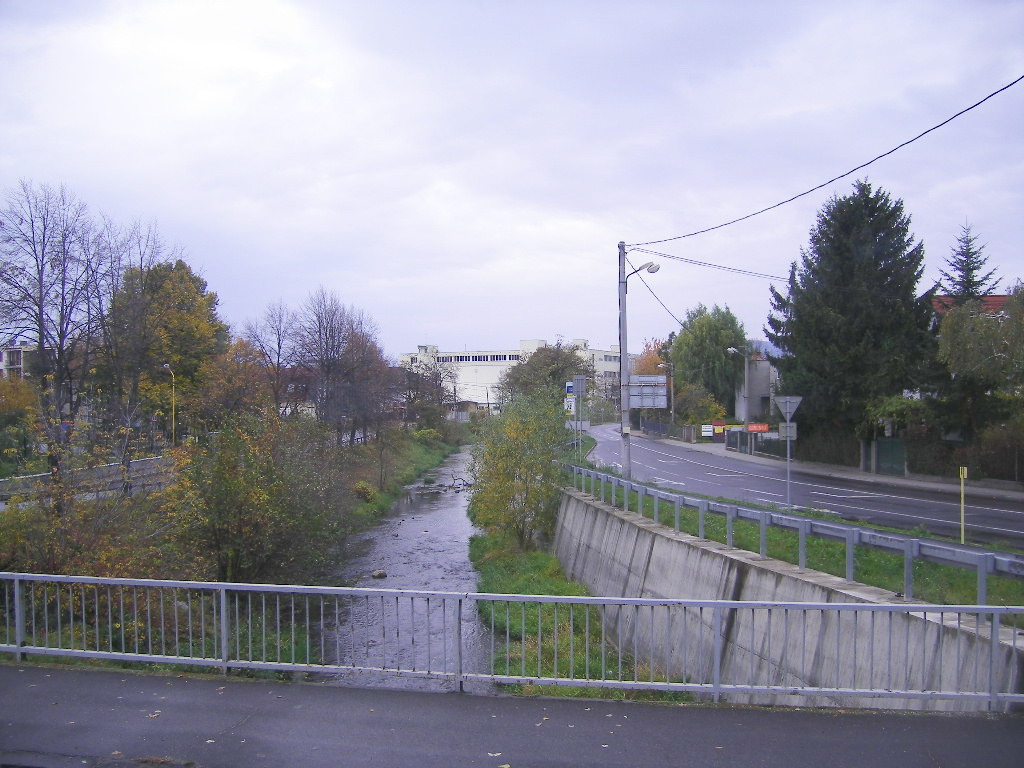 Prievidza - the Handlovka stream